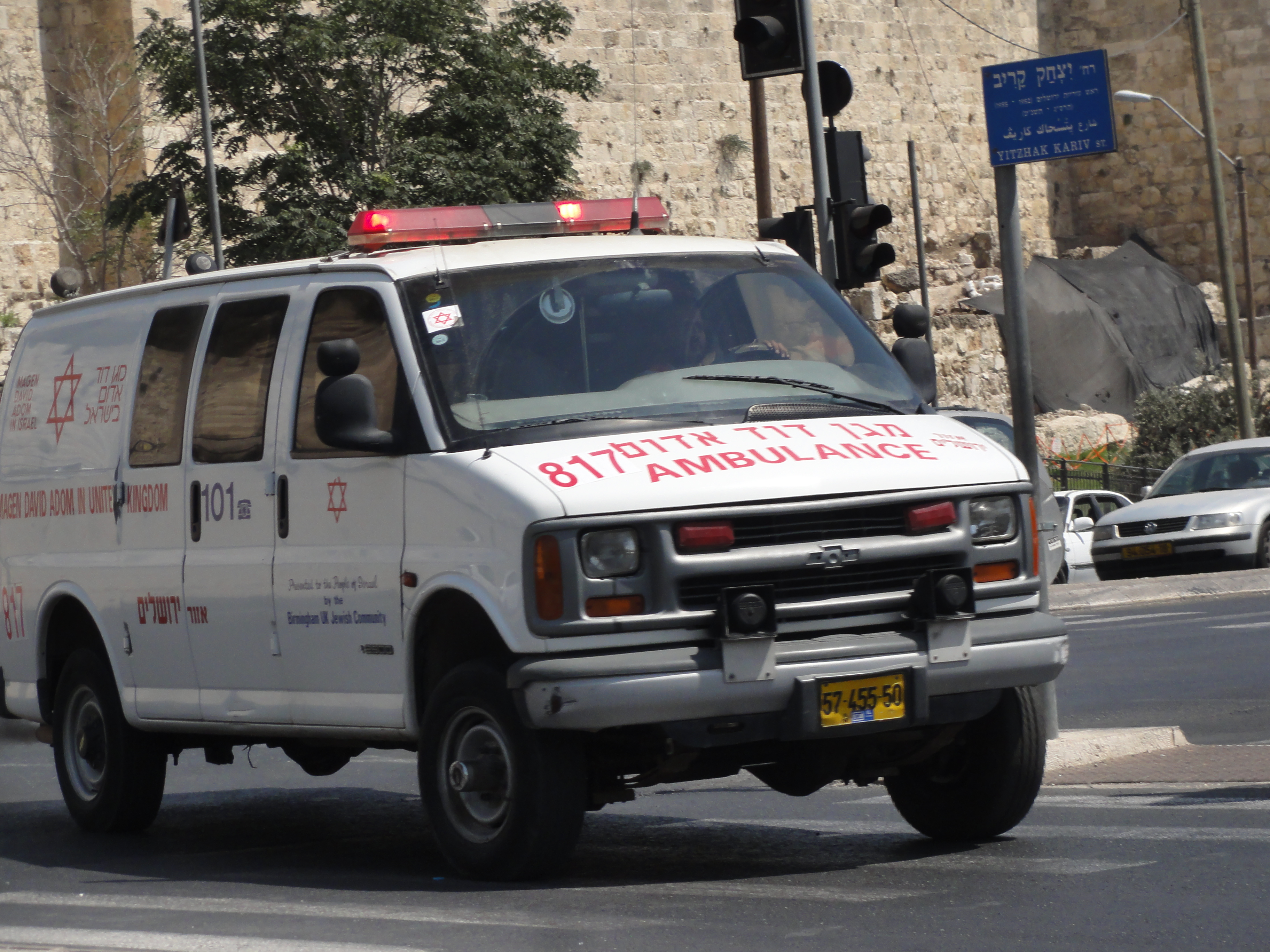 Magen David Adom ambulance (Chevrolet Express). Yitzhak Kariv street sign.